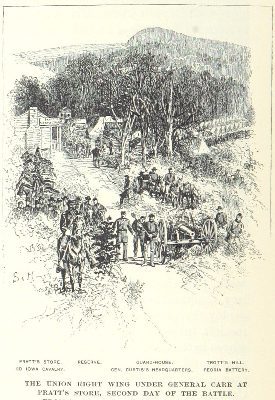 General Curtis's headquarters at Pratt's Store during the Battle of Pea Ridge